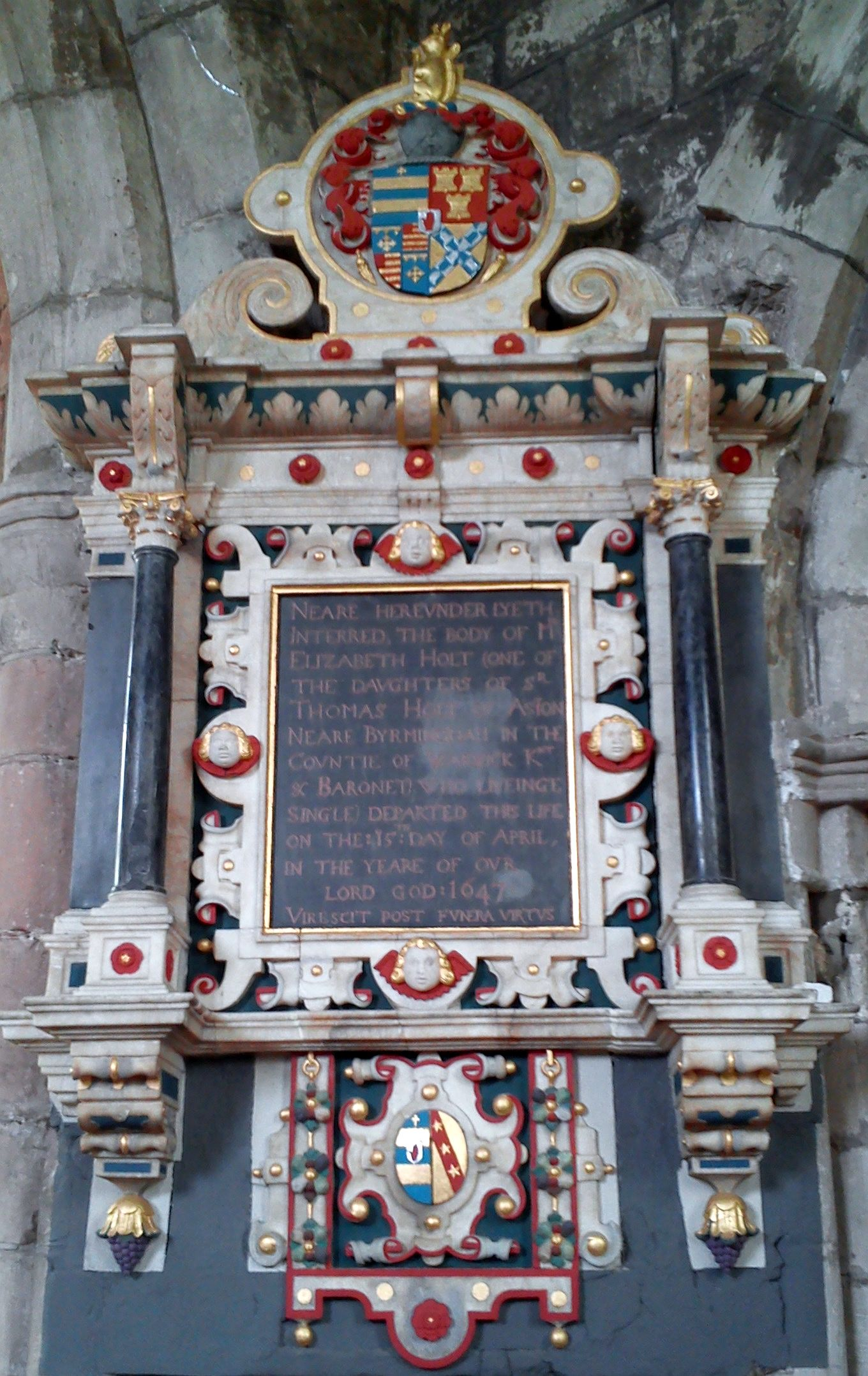 St Cassian's Church in Chaddesley Corbett, Worcestershire, England: Memorial to owners of Harvington Hall, lords of the manor of Chaddesley Corbett. Monument to Elizabeth Holte (d.1647), unmarried daughter of Sir Thomas Holte, 1st Baronet (c. 1571 – 14 December 1654) who built Aston Hall. Arms of Holte: Azure, two bars and in chief a cross formée fitchée or. Impaling Bradbourne (Argent (shown here as or), on a bend gules three mullets or) for his first wife Grace Bradbourne, a daughter and co-heiress of William Bradbourne of Hough, Derbyshire.